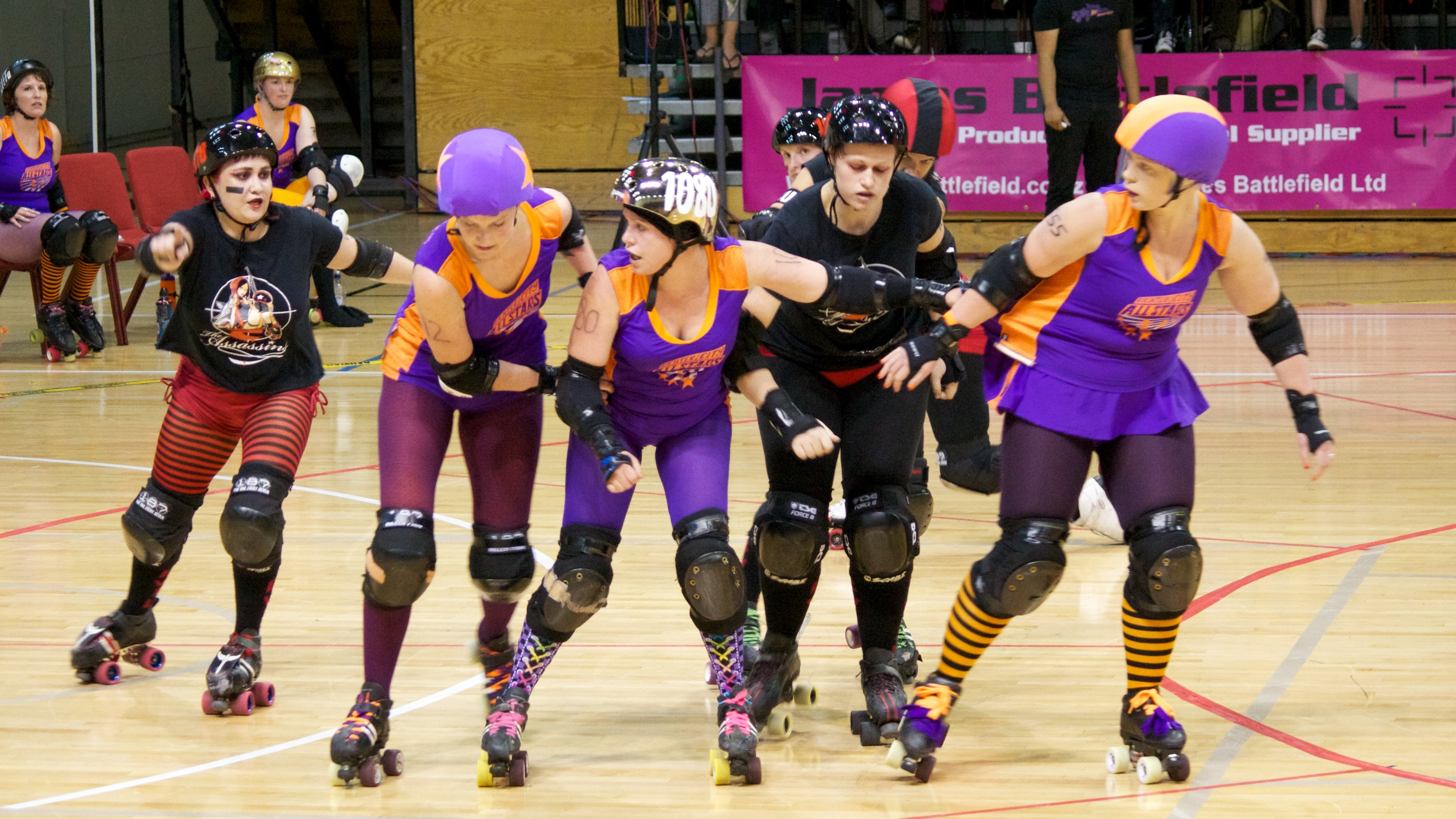 Wellington's roller derby team, the Richter City All Stars (in black) play Sydney's Assassins (in purple) at the TSB Bank Arena in Wellington on March 19, 2011. Two Sydney skaters have formed a wall at the front of the pack, while their jammer is about to take a whip from one.